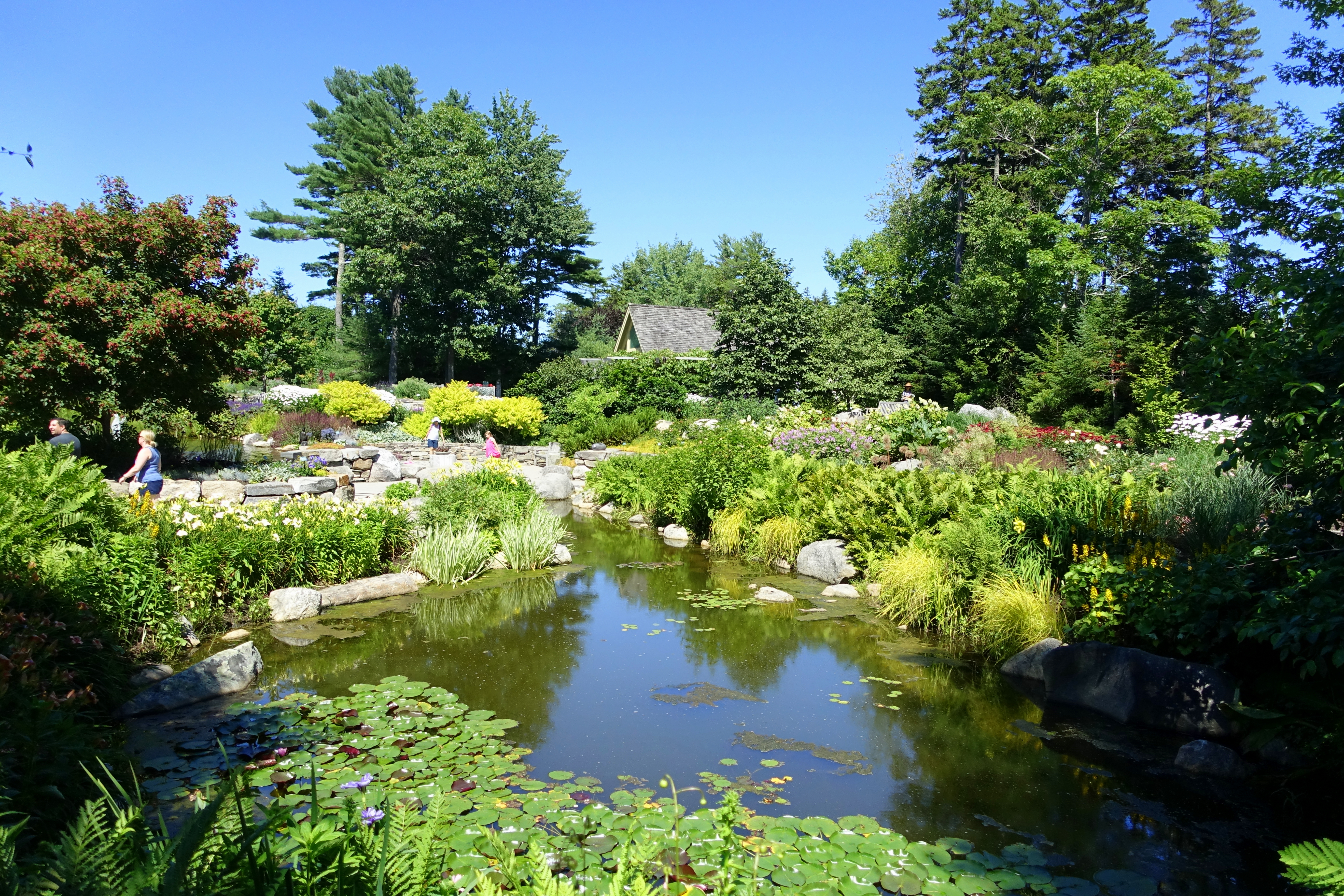 Coastal Maine Botanical Gardens - Boothbay, Maine, USA.